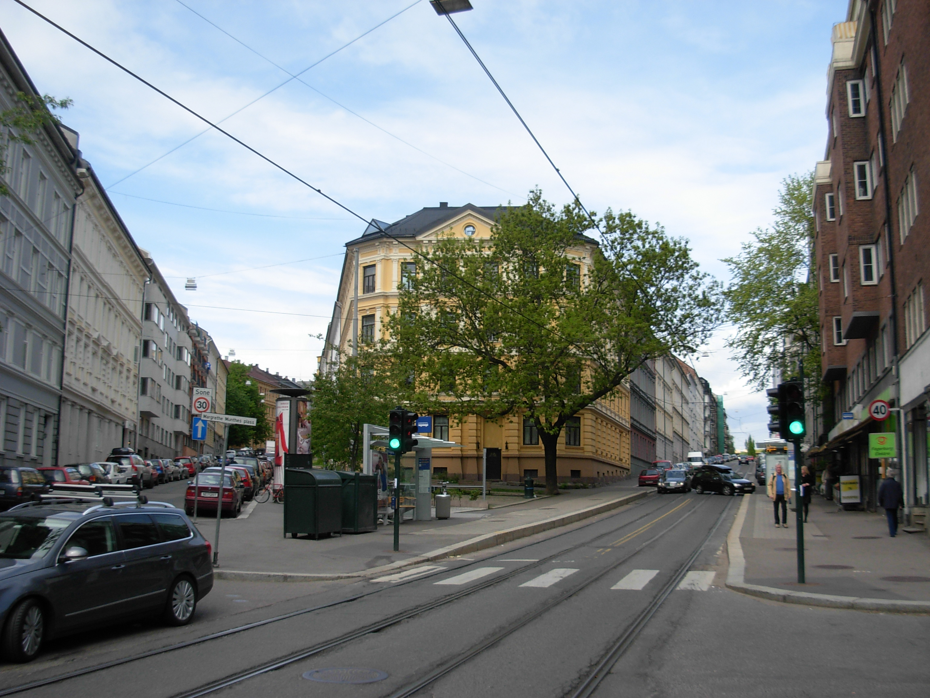 Margrethe Munthes plass, Oslo